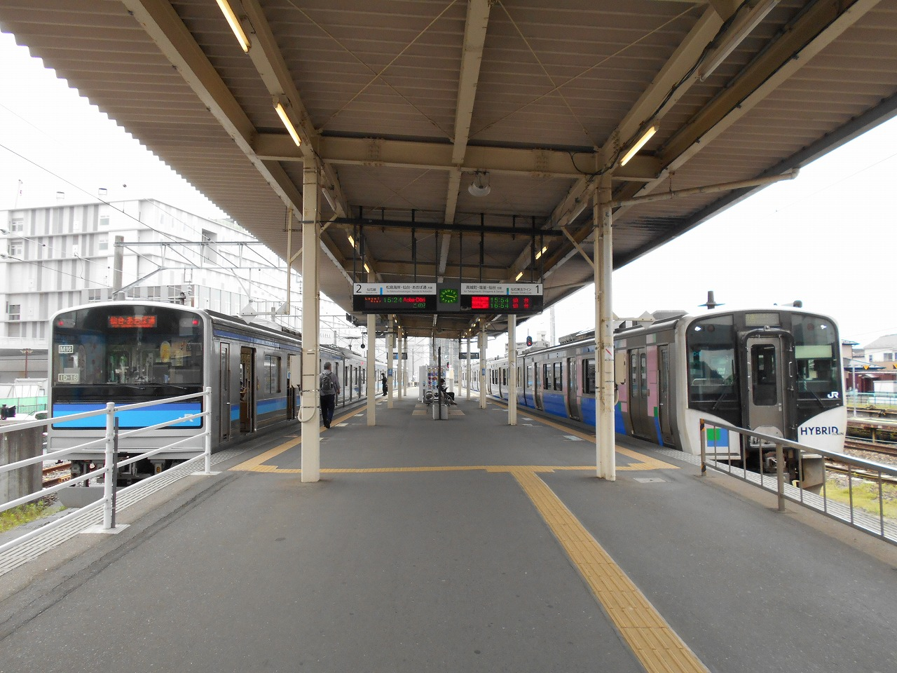 JR East Ishinomaki station platform 1,2 (Senseki line and Senseki-Tohoku line)